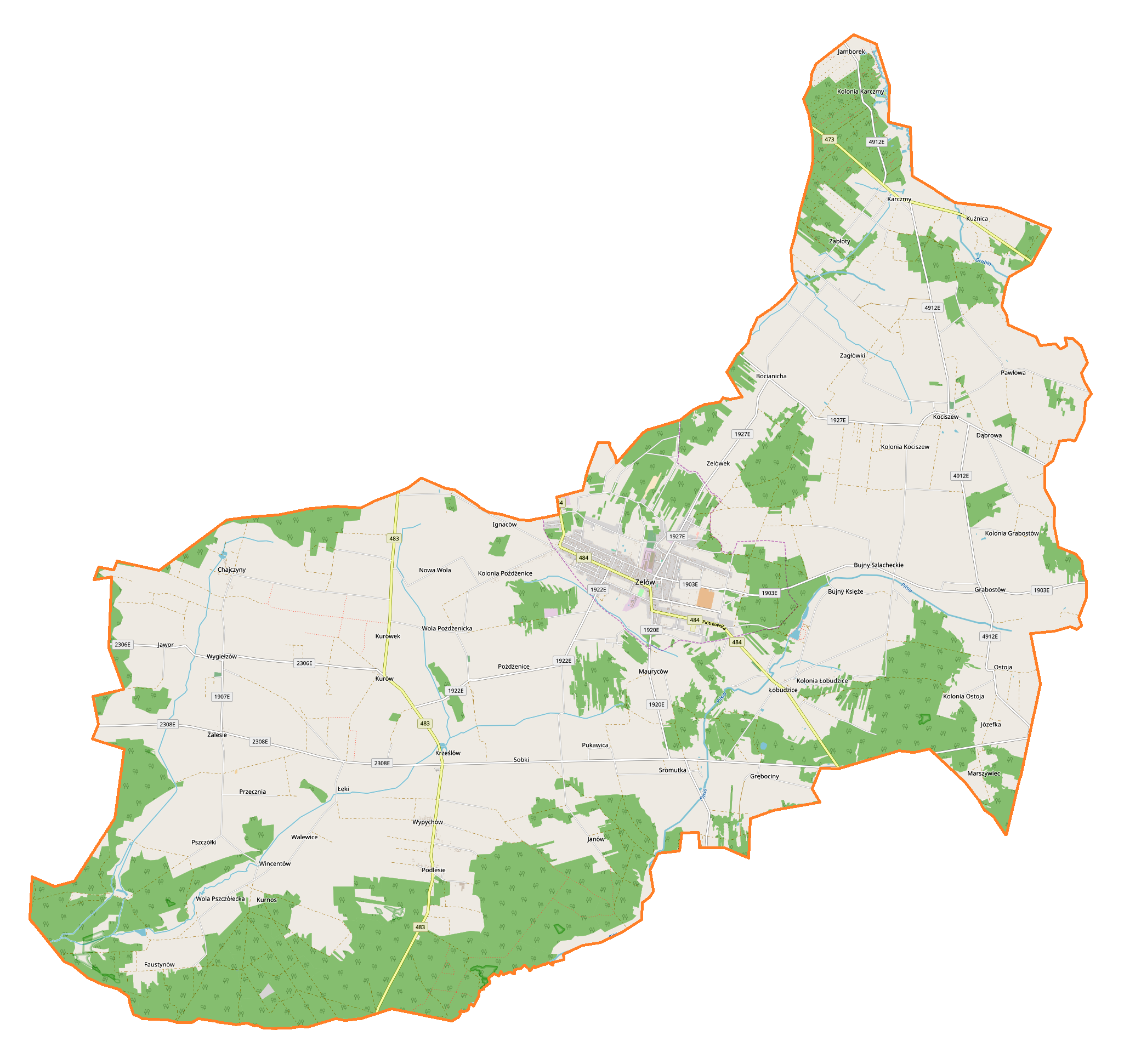 Location map